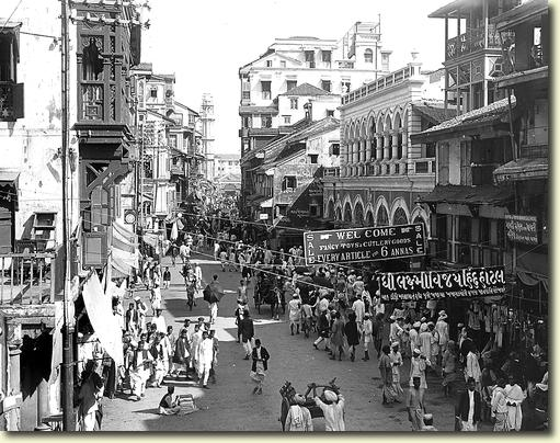 Street of the Pearl Dealers in Bombay in 1912